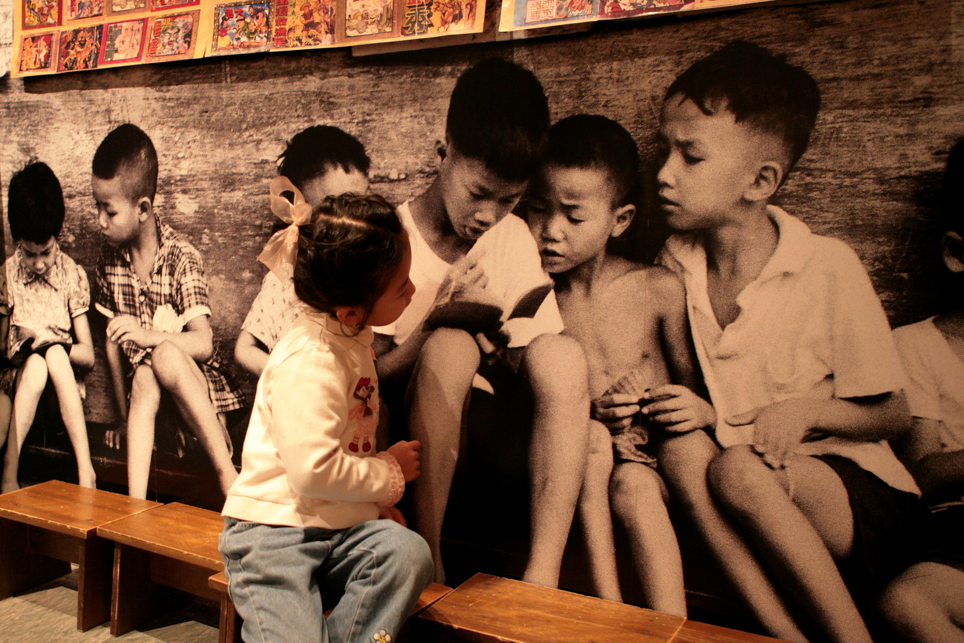 Taken at the "Hong Kong's Popular Entertainment" exhibition @ the Hong Kong Heritage Museum, Shatin. The "Life" size photo of childrens (of 60s') sharing books at the street corner. The placement of the old chairs infront of the b&w photo gave us a feeling of mixed with the oldies.